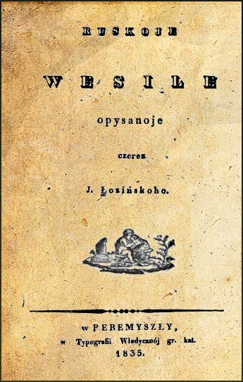 Front page of the book "Ruskoje wesile" (1835) by Josyp Lozynskyi.